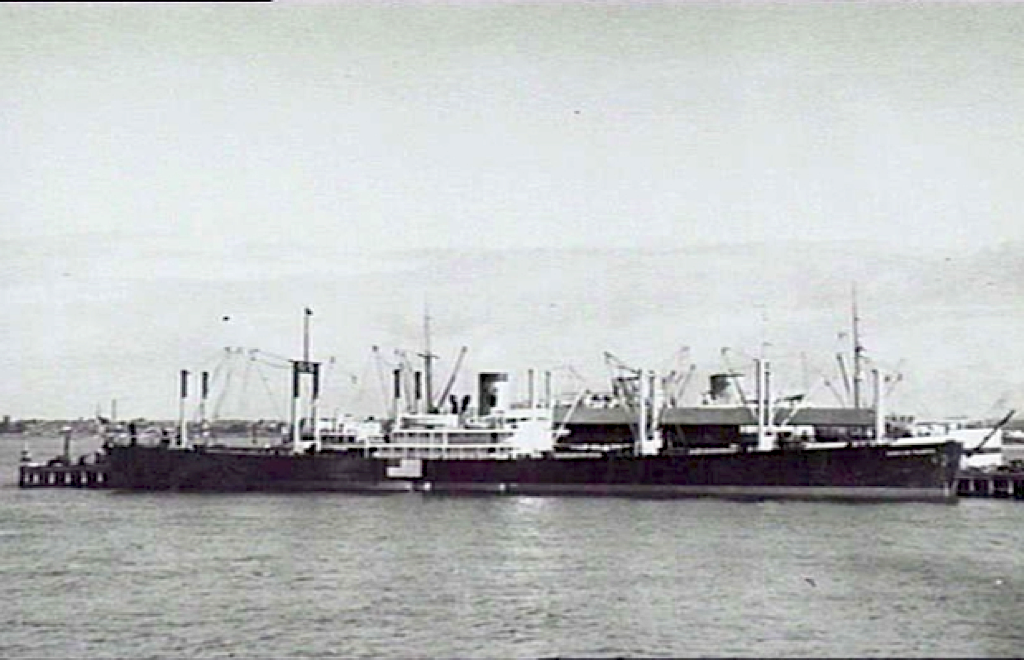 Port Melbourne, Vic. 1941. Starboard side view of the American cargo steamer Hawaiian Planter. Note the prominent national flag painted on the hull, indicating the ship's neutrality. In the background is the 2/2 Australian hospital ship Wanganella, fitting out. (Naval Historical Collection)